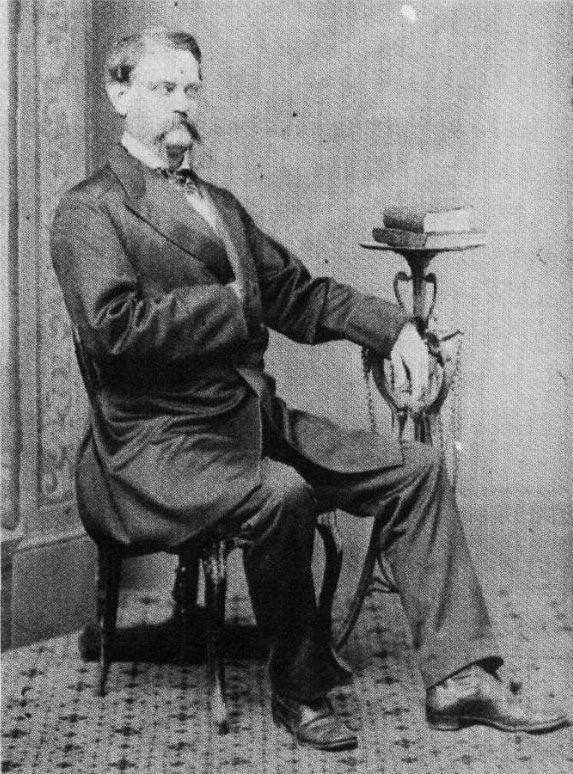 John C. Breckinridge sits for a portrait during his exile in Paris